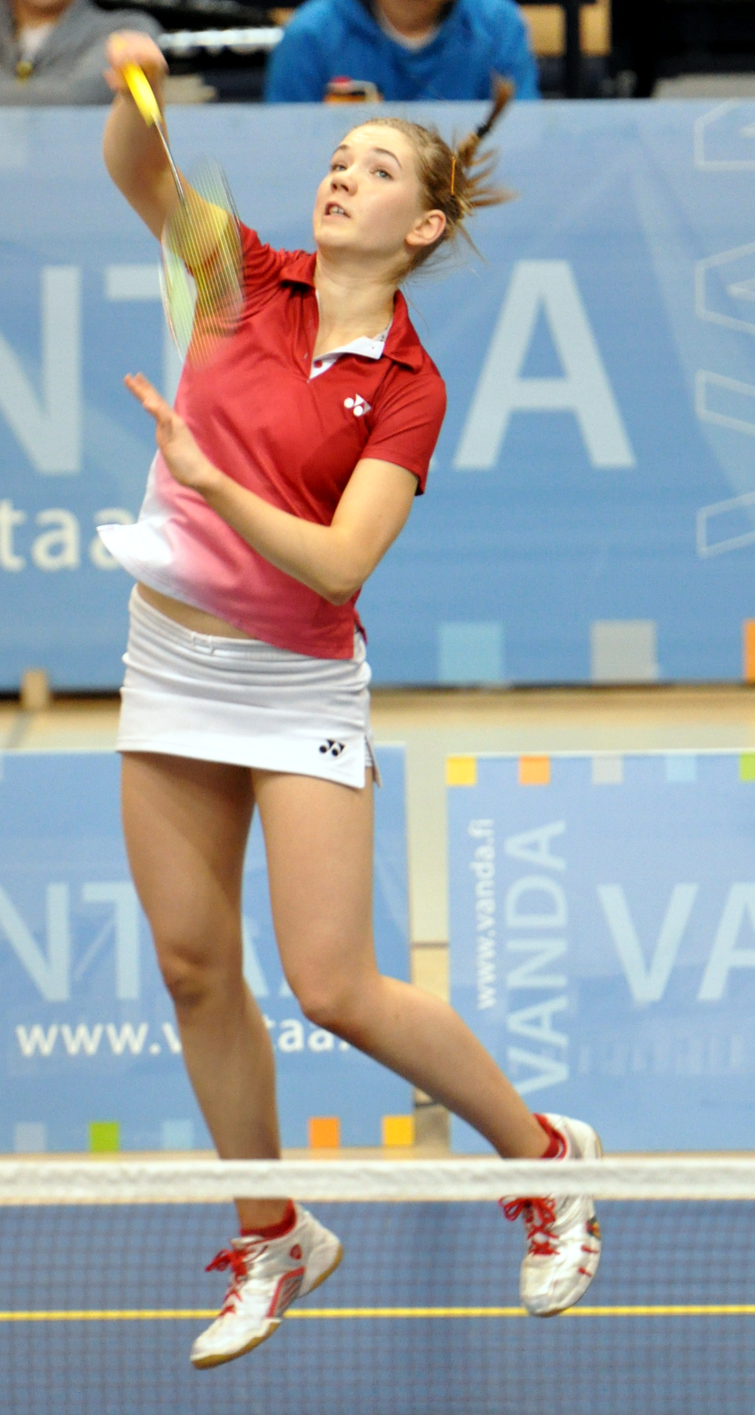 Airi Mikkelä is a female badminton player from Finland.